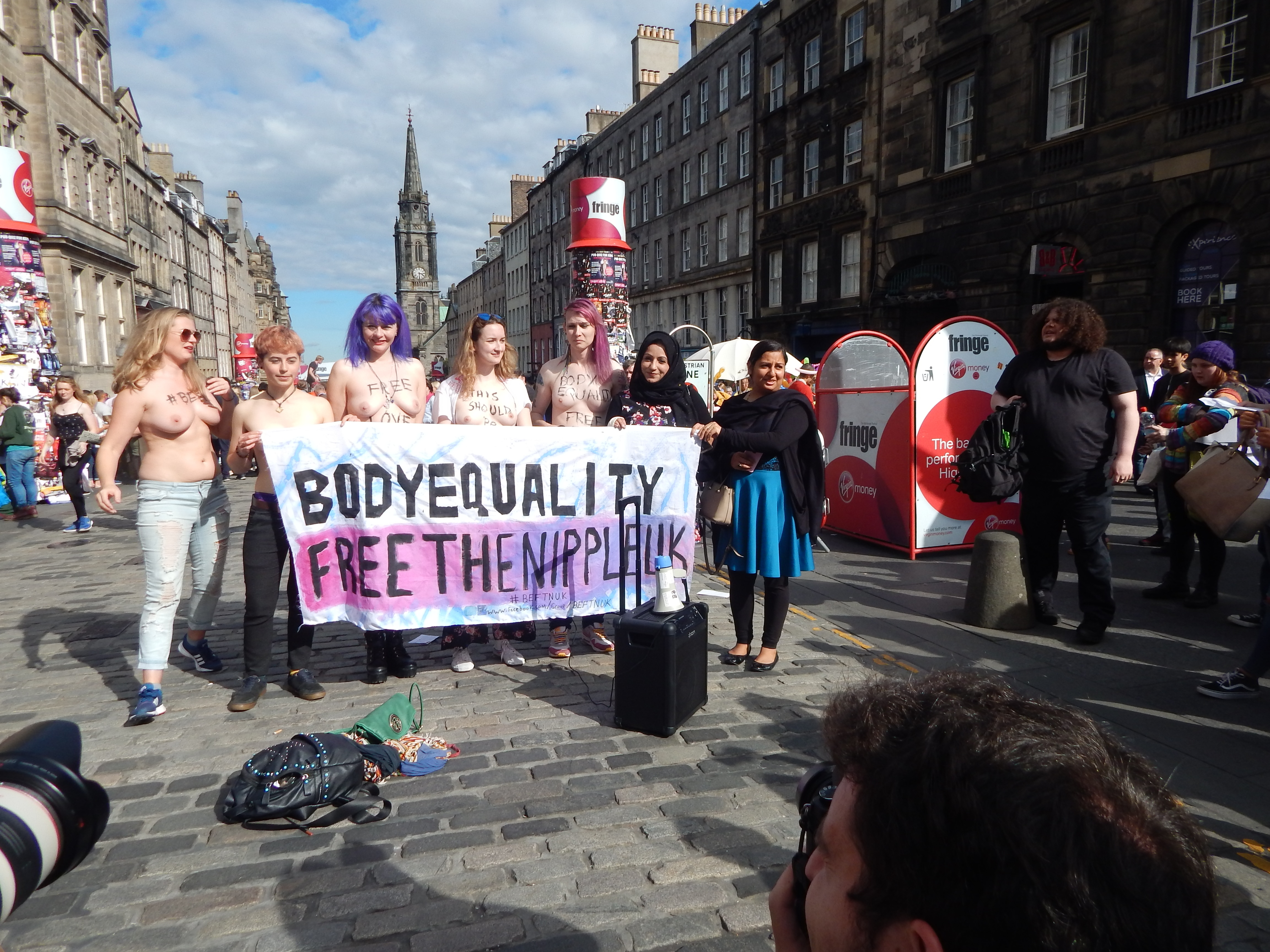 Free the Nipple Protest at Fringe 2017 Festival in Edinburgh